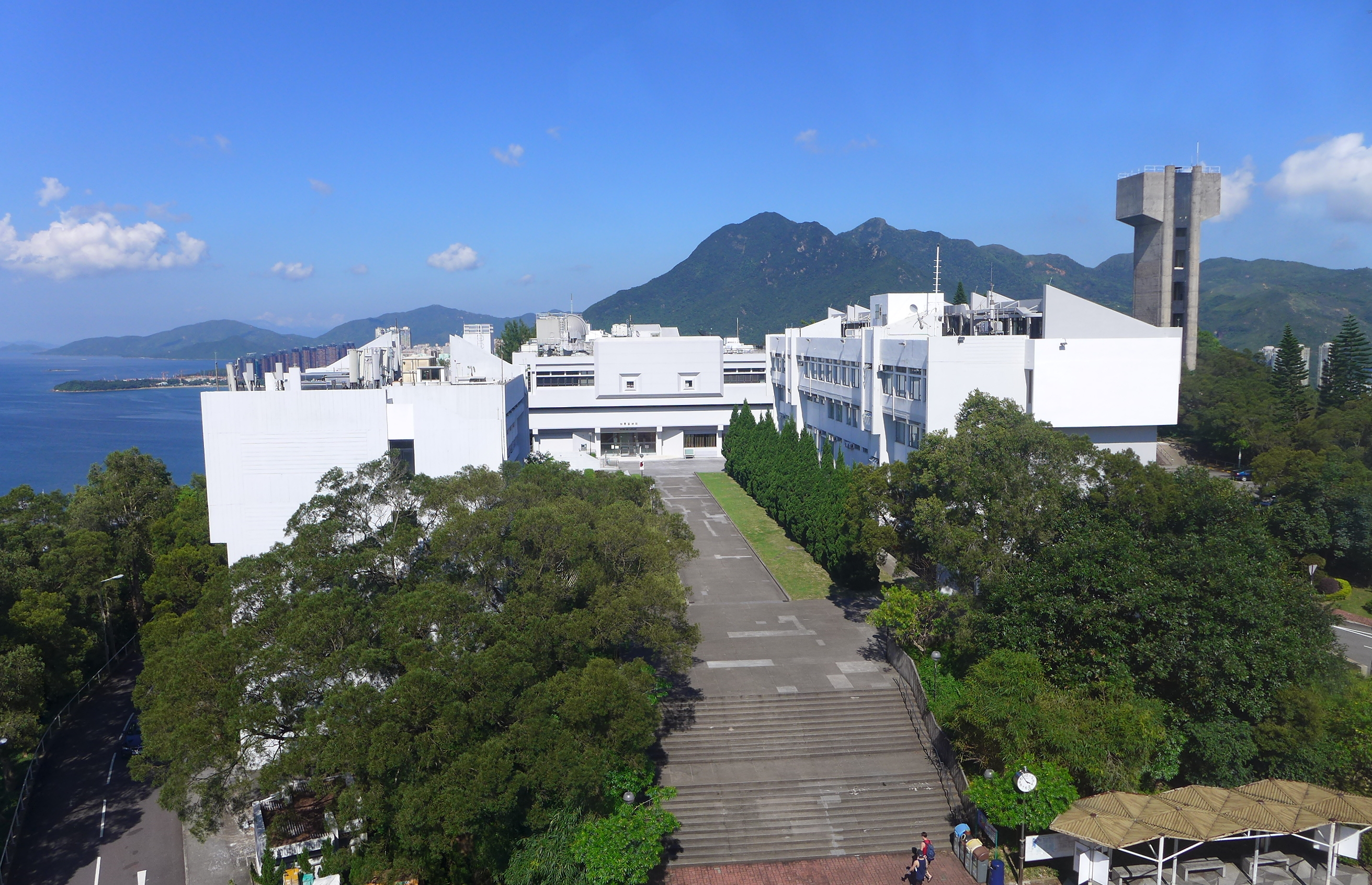 New Asia College Overview